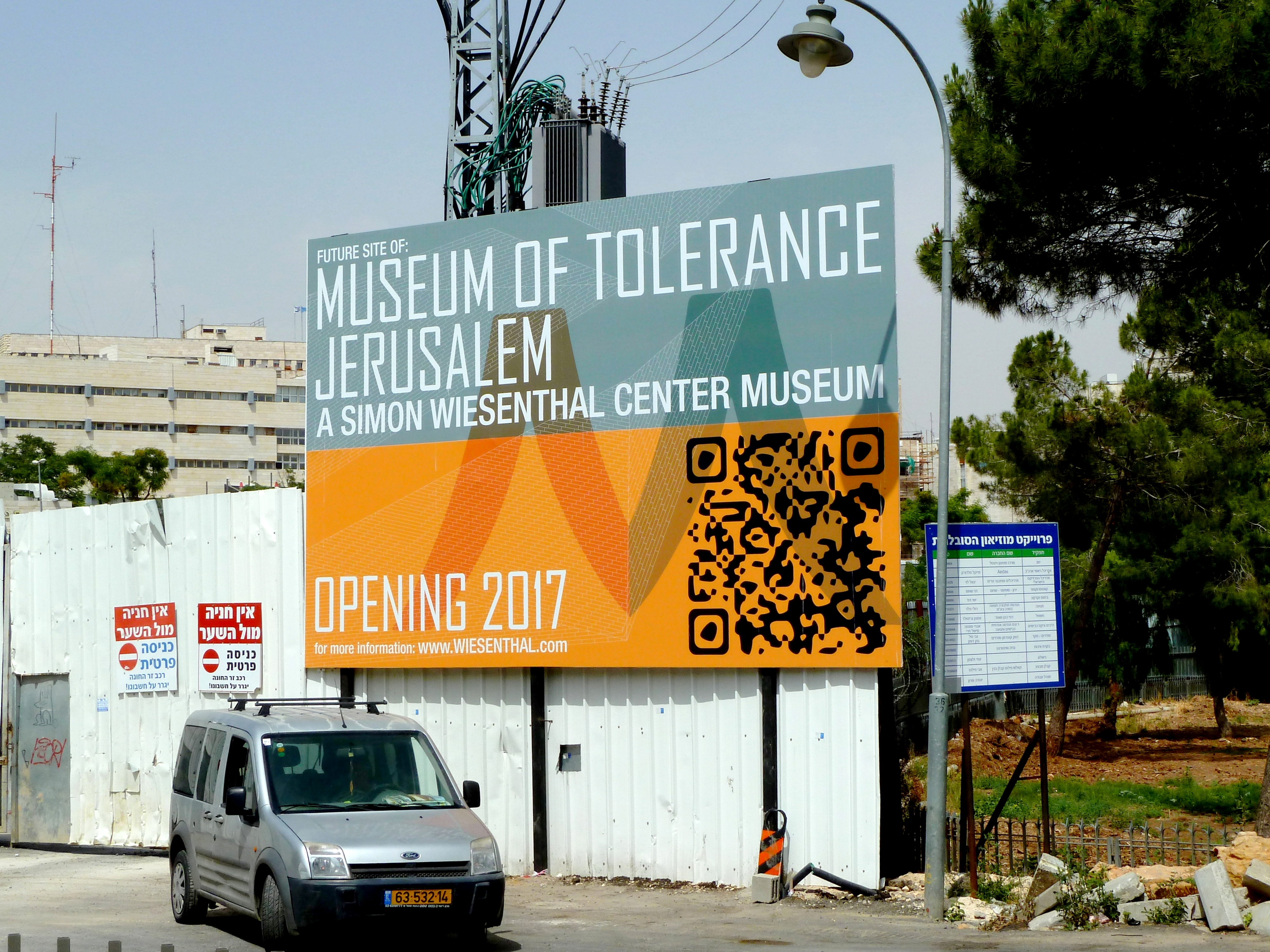 Jerusalem, Maccabi Mutsri Square (corner of Menashe Ben Israel and Hillel streets), Museum of Tolerance construction site. The QR code leads to the internet site